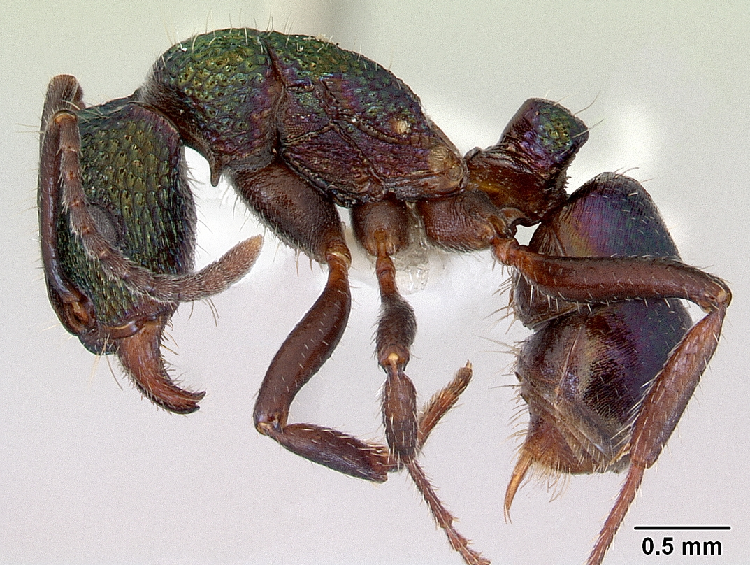 Profile view of ant Rhytidoponera metallica specimen casent0172345.